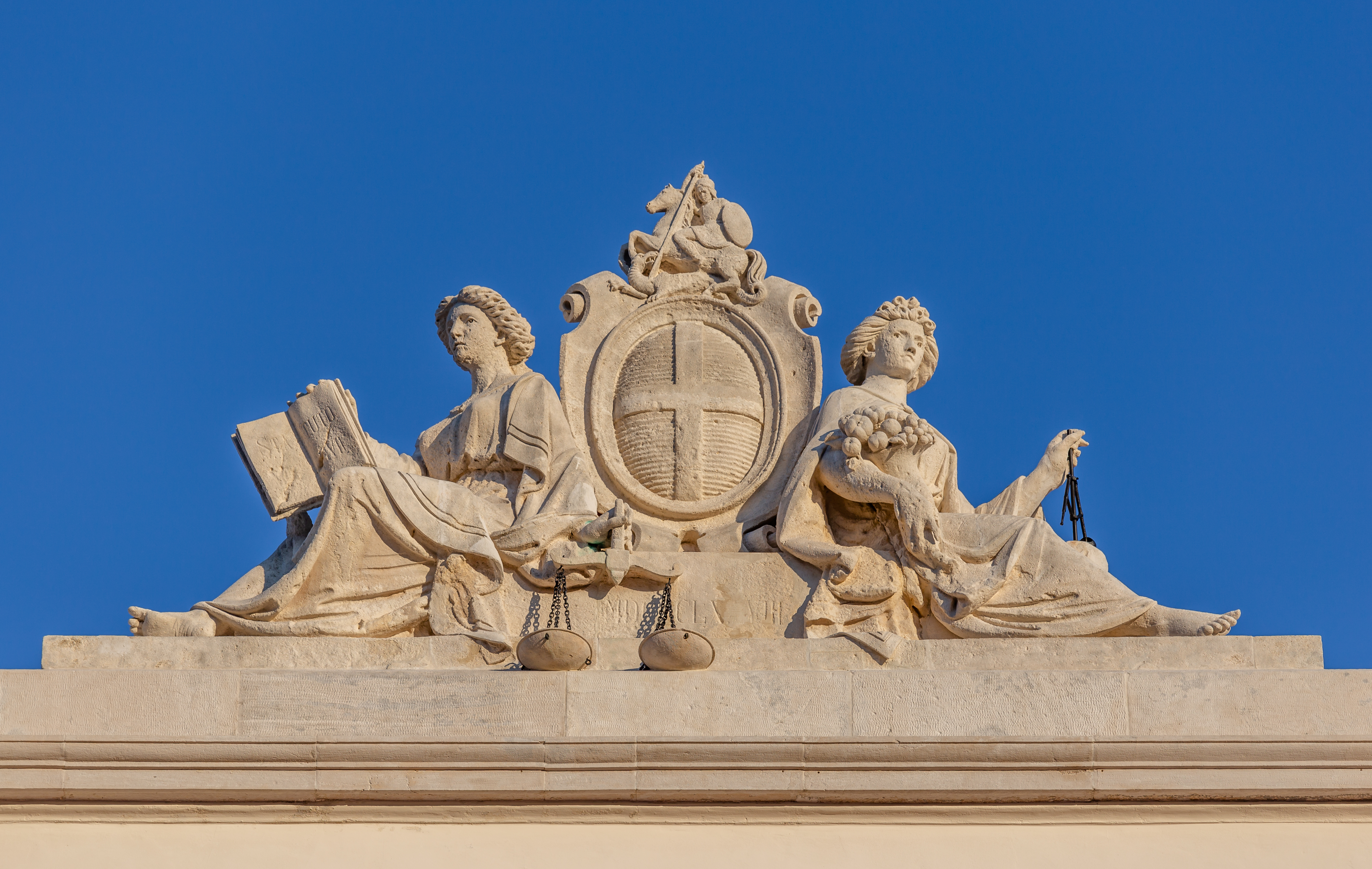 Statue at top of Piran Town Hall, Piran, Slovenia